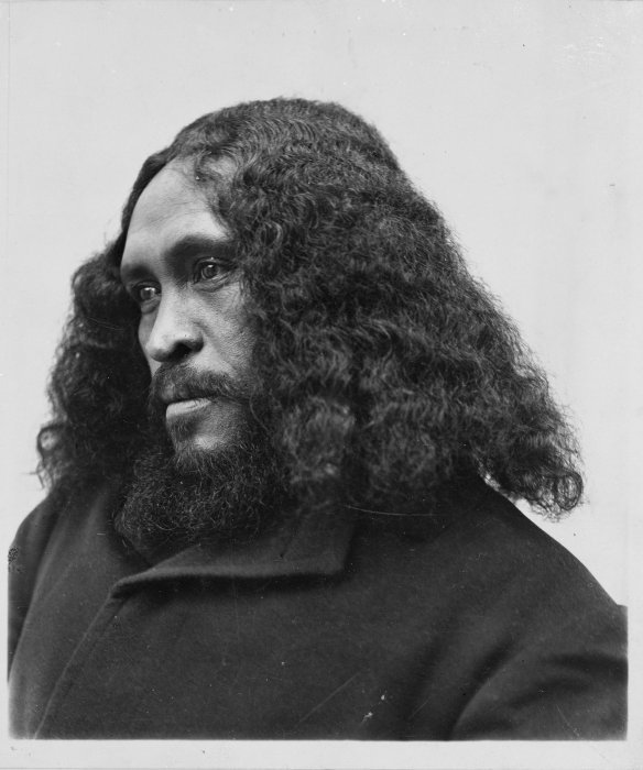 Photo of Rua Kenana by James McDonald from the Alexander Turnbull library. Uploaded by Mombas 12:42, 29 April 2007 (UTC)